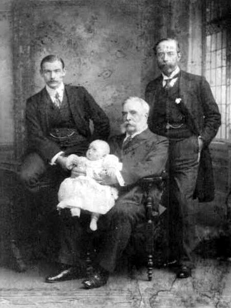 Henry Devenish (left), Sir Henry Henry Harben (centre), Andrade Harben (right)